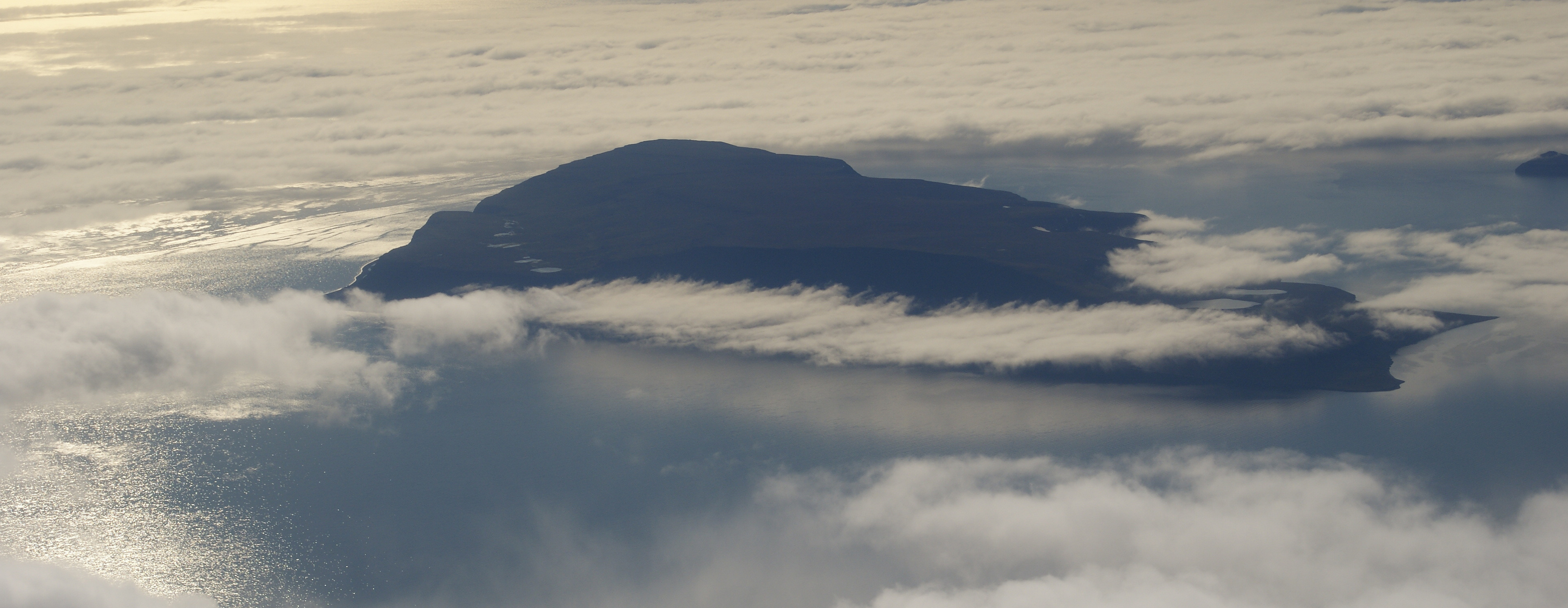 Aerial view of Qeqertarsuatsiaq Island, Greenland. Photographed from Air Greenland de Havilland Canada Dash-7 during the Upernavik-Ilulissat flight.